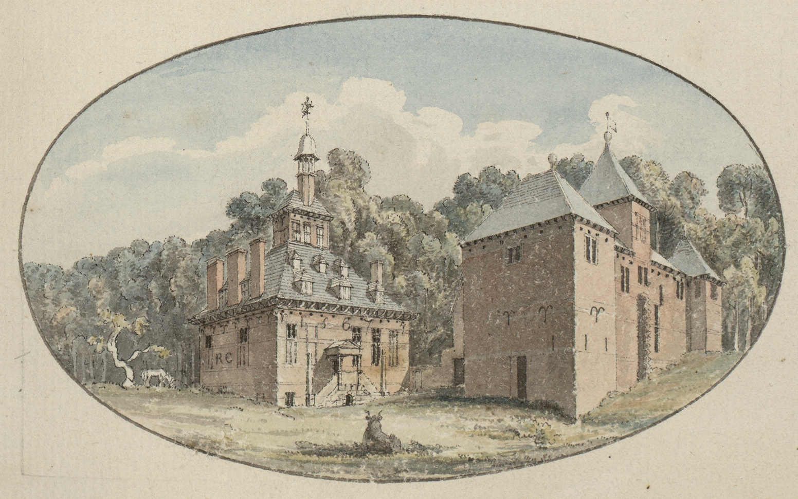 An image from a set of 8 extra-illustrated volumes of A tour in Wales by Thomas Pennant (1726-1798) that chronicle the three journeys he made through Wales between 1773 and 1776. These volumes are unique because they were compiled for Pennant's own library at Downing. This edition was produced in 1781. The volumes include a number of original drawings by Moses Griffiths, Ingleby and other well known artists of the period. Thomas Pennant (1726-1798)